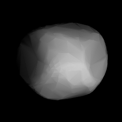 3D convex shape model of 636 Erika, computed using light curve inversion techniques. J. Hanuš, J. Ďurech, M. Brož, B. D. Warner (June 2011). "A study of asteroid pole-latitude distribution based on an extended set of shape models derived by the lightcurve inversion method". Astronomy and Astrophysics 530: A134. ISSN 0004-6361. arXiv